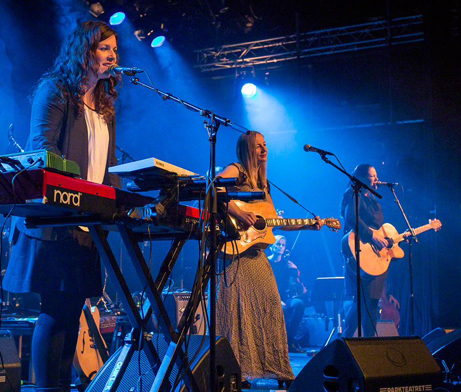 Reunion concert with Ephemera at Parkteatret in Oslo on 16.04.2016. Lineup:Jannicke Larsen (keyboard)Ingerlise Størksen (guitar)Christine Sandtorv (guitar)